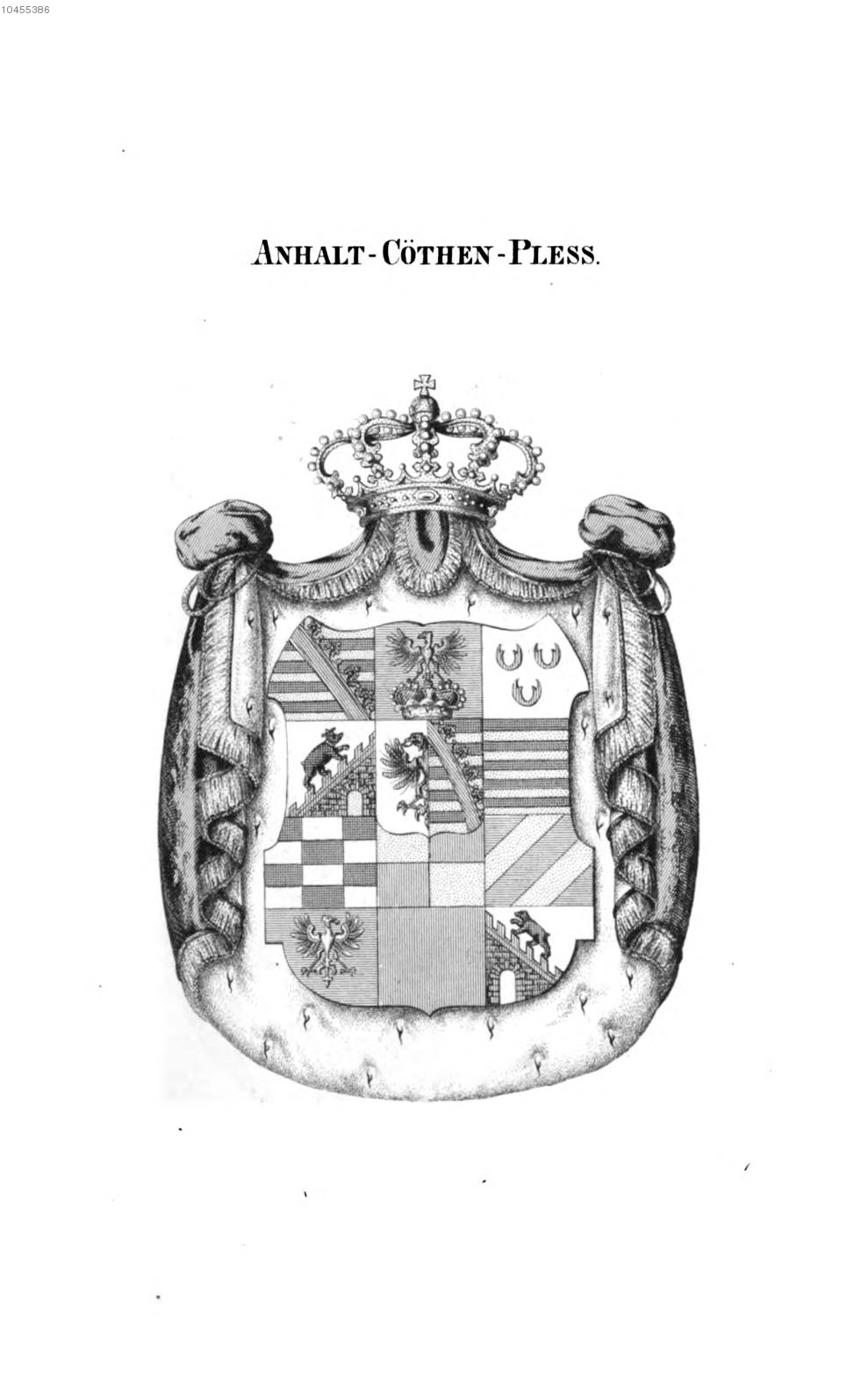 Wappen Anhalt Cöthen Pless - Tyroff HA.jpg